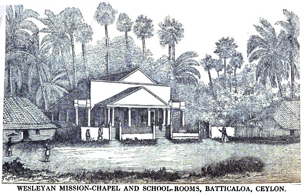 Wesleyan Mission-Chapel and School-Rooms, Battticaloa, Ceylon (VII, p.54, May 1850)